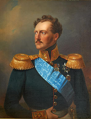 Nicholas I, Emperor of Russia, attributed to Franz Krüger, c. 1832, oil on canvas